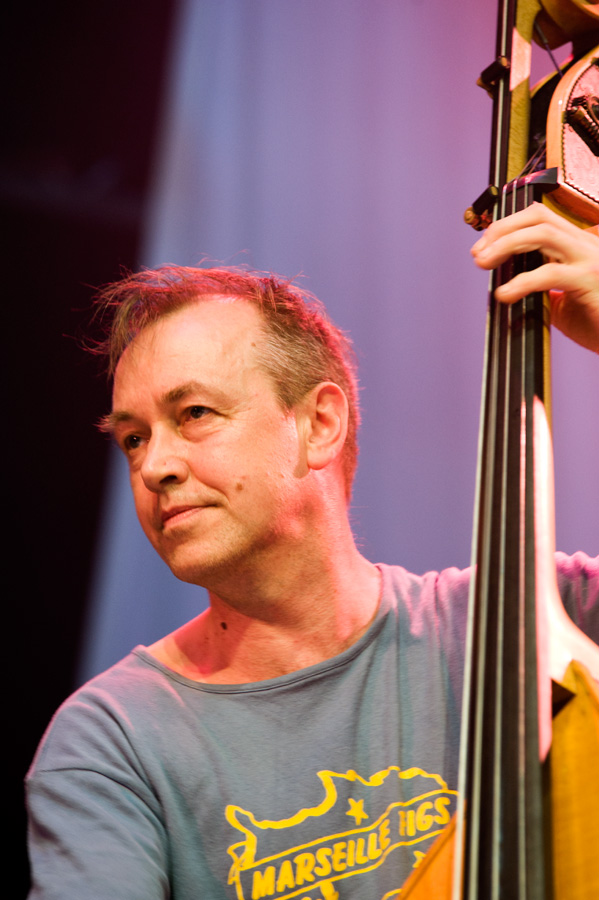 John Edwards at moers festival 2012